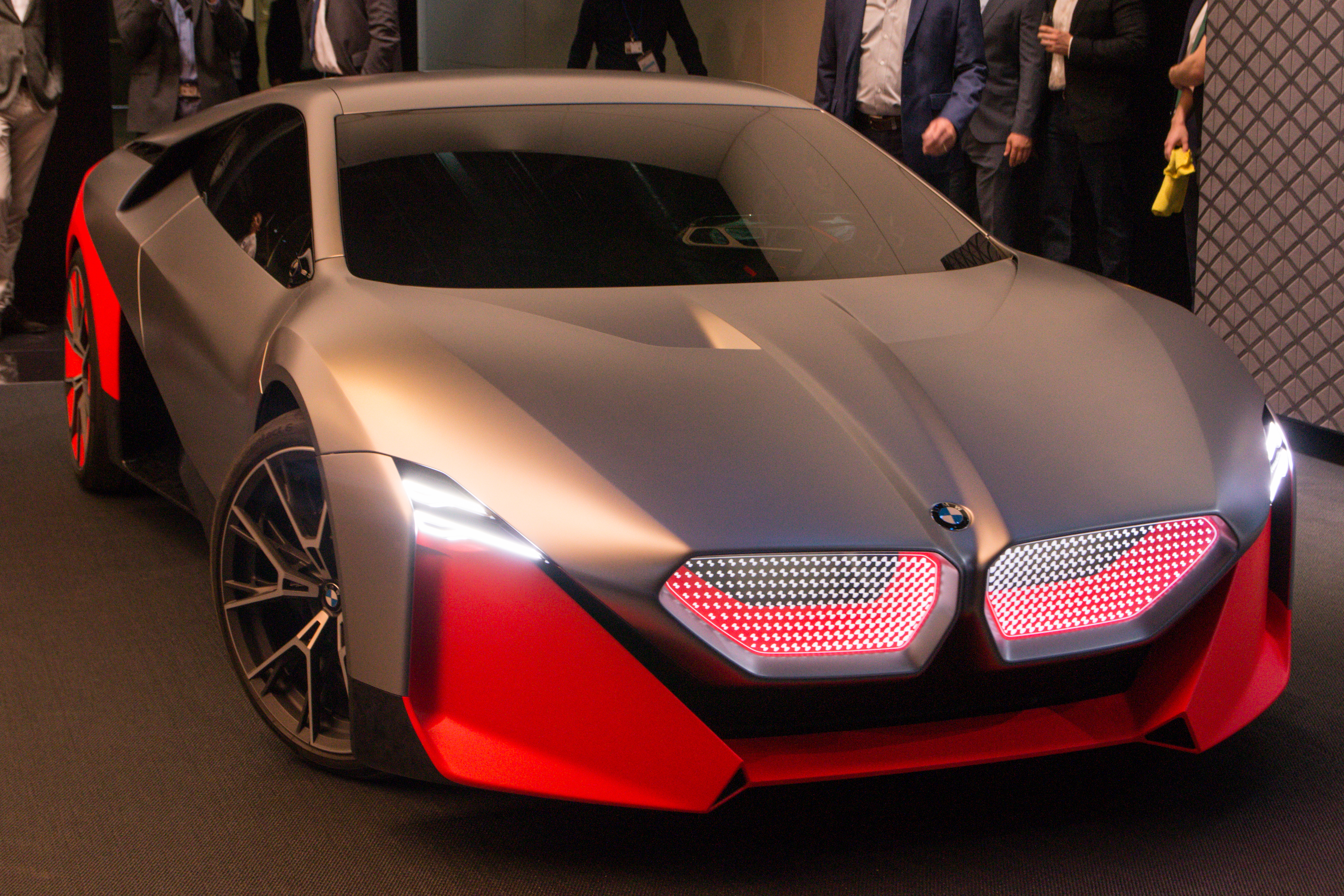 BMW Vision M NEXT